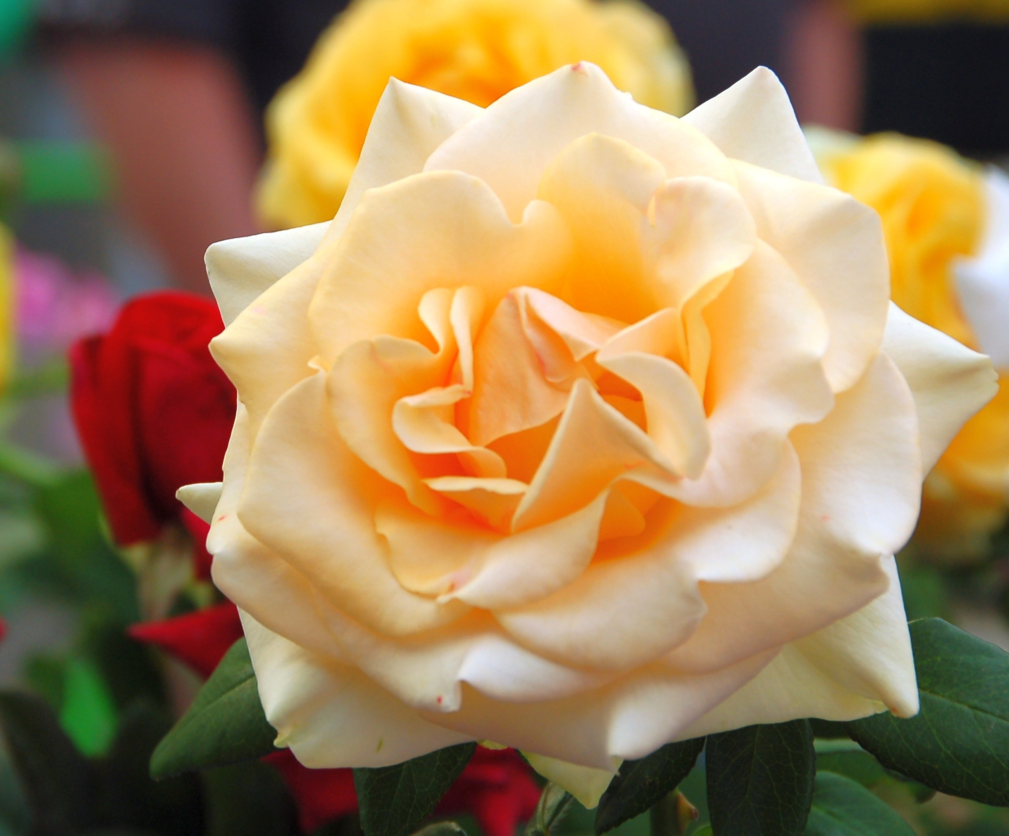 Rosa 'Marilyn Monroe' THE AUTUMN ROSE SPECTACULAR presented by The Rose Society of Victoria. Marilyn Monroe rose bush is a beautiful apricot pink hybrid tea rose, that's named after the Hollywood legend. Picture taken at Garden World Nursery, Braeside.